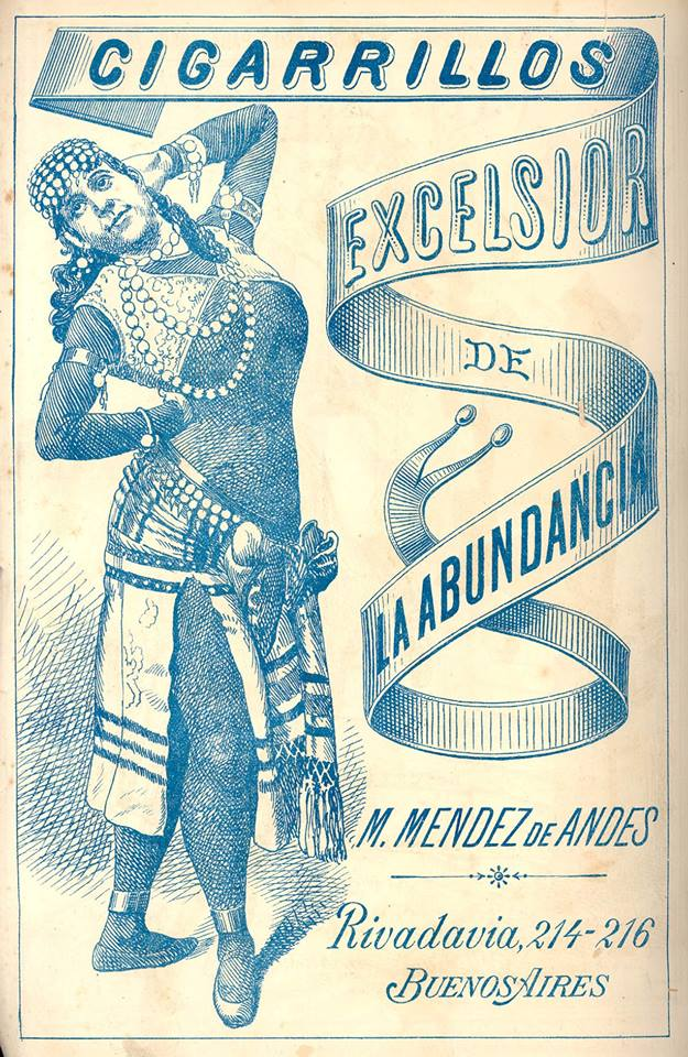 Advertisement for Excelsior, a brand of cigarettes sold in Argentina by then.